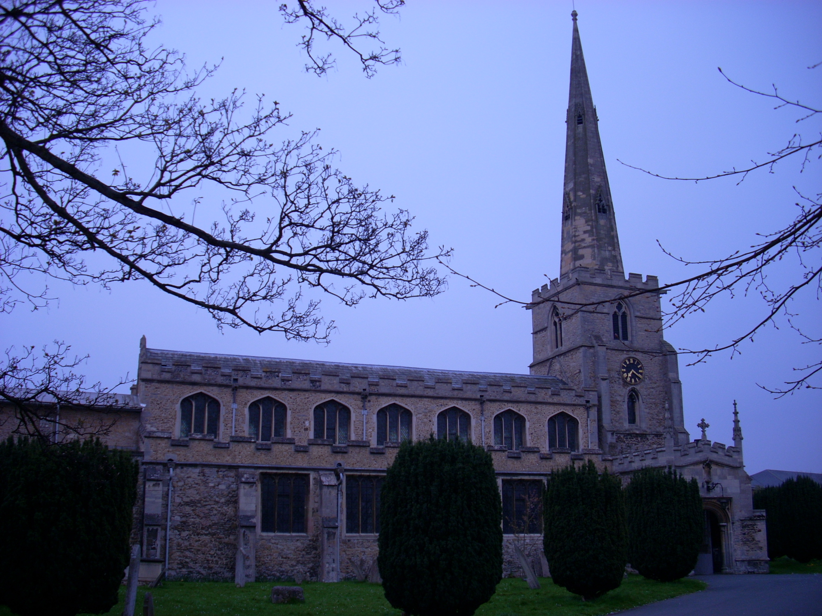 Church of St Andrew, Chesterton, Cambridge